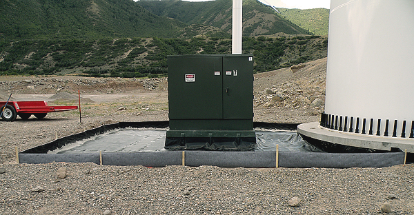 A secondary spill containment system by C.I.Agent Solutions being installed around an electrical transformer.